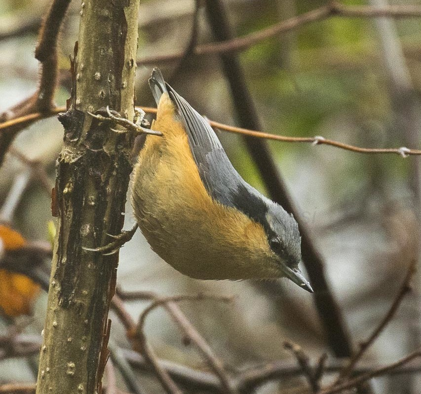 White-tailed Nuthatch - Eaglenest - IndiaFJ0A0978